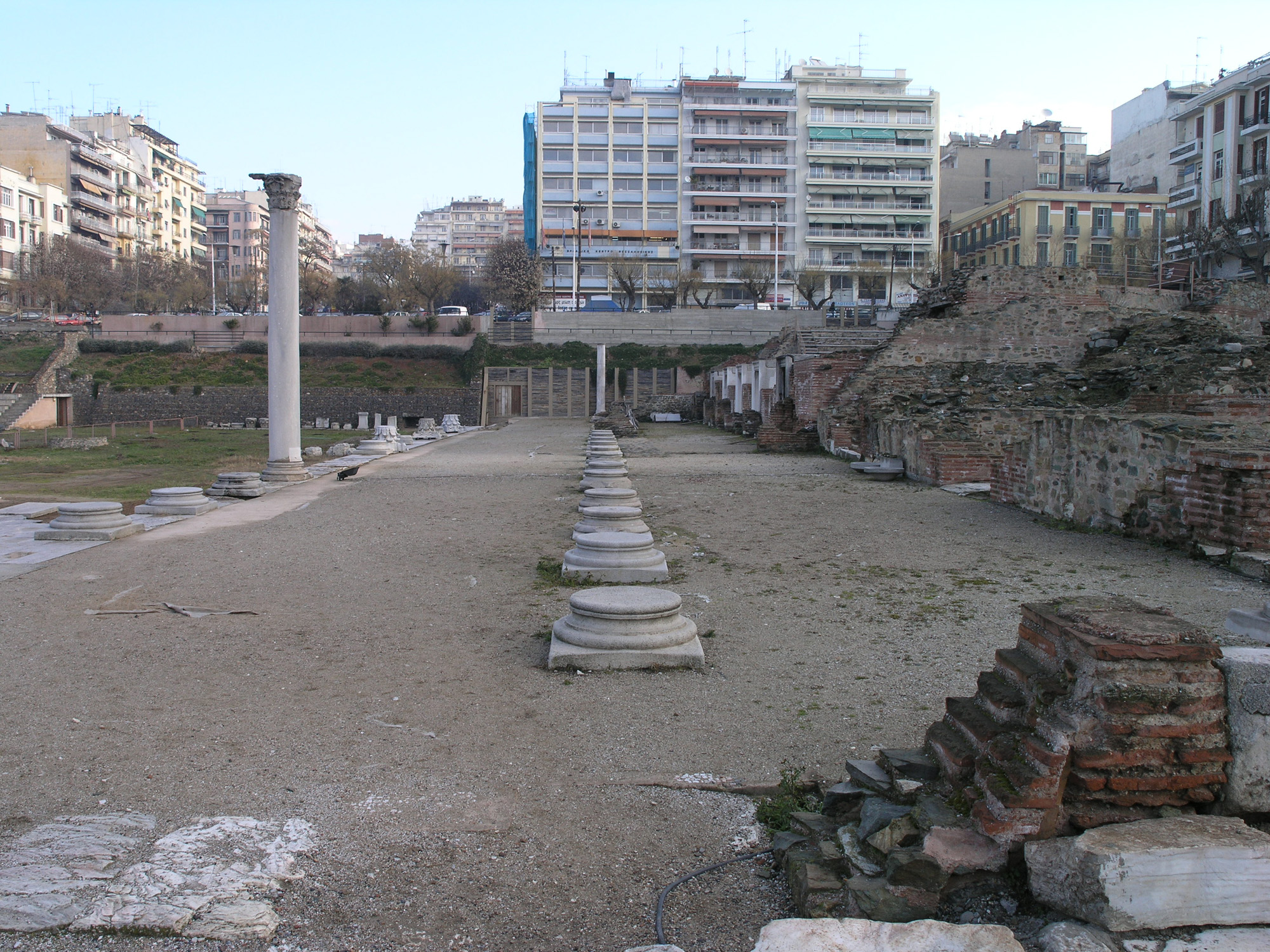 East stoa of the ancient agora in Thessaloniki, seen from the South. 2nd c. AD. Photograph taken by Marsyas 09:49, 27 February 2006 (UTC)